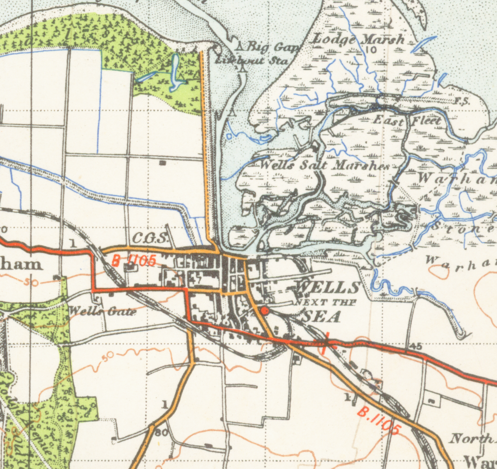 Map of Wells-next-the-sea from 1946. Scale 1 inch to the mile 600DPI Sheet 125